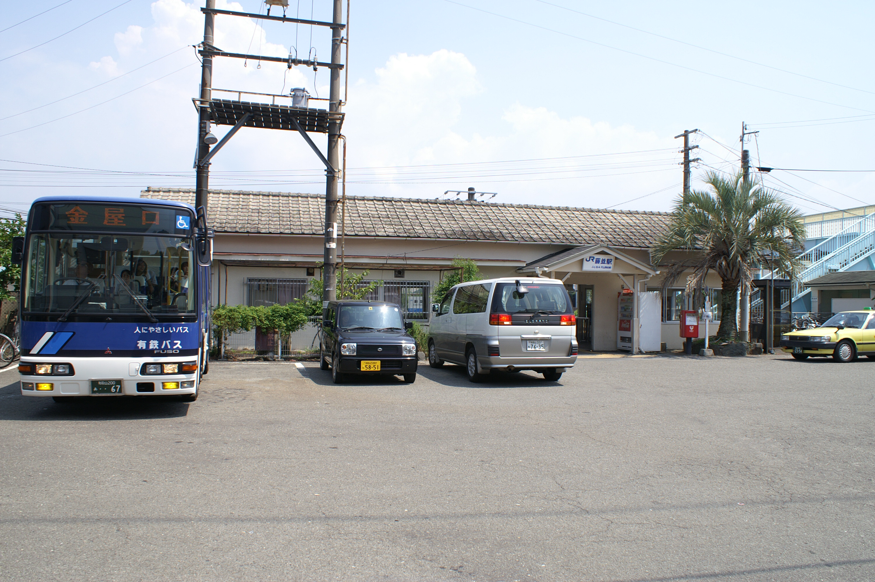 JR West Fujinami Station